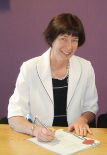 Claire Clancy, Chief Executive and Clerk to the National Assembly for Wales.